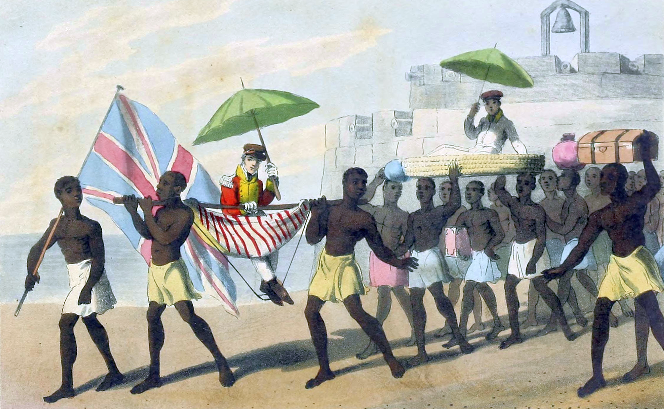 A sketch of William Hutton travelling in Africa from his book 'A Voyage to Africa', published in 1821.